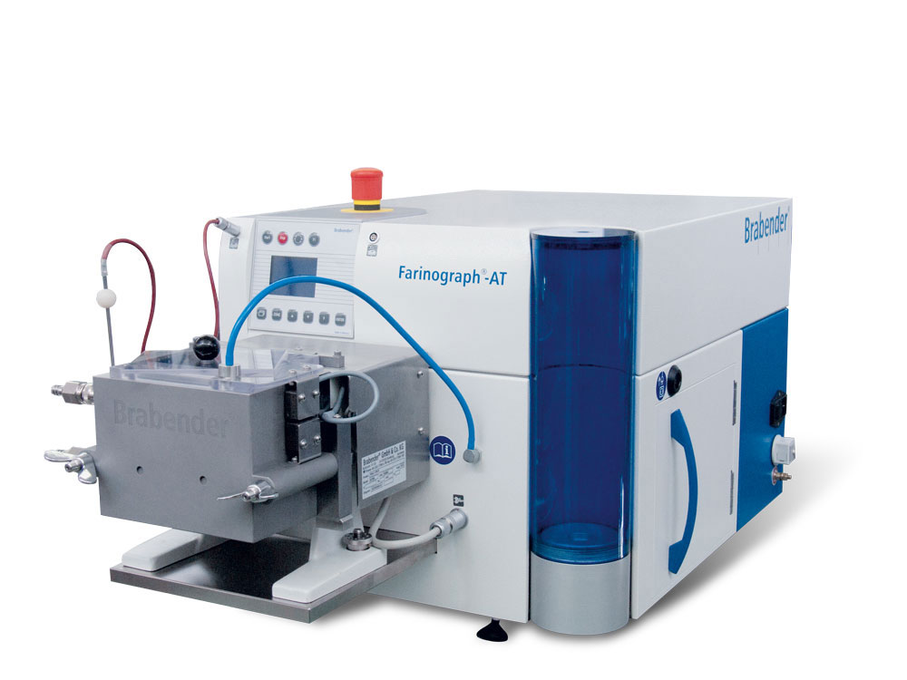 Farinograph to determine the water absorption capacity of flour and the kneading properties of a dough